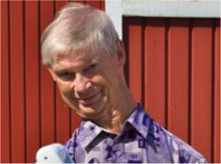 Sten Hemmingson, inflicted with polio at 15, management consultant and CEO